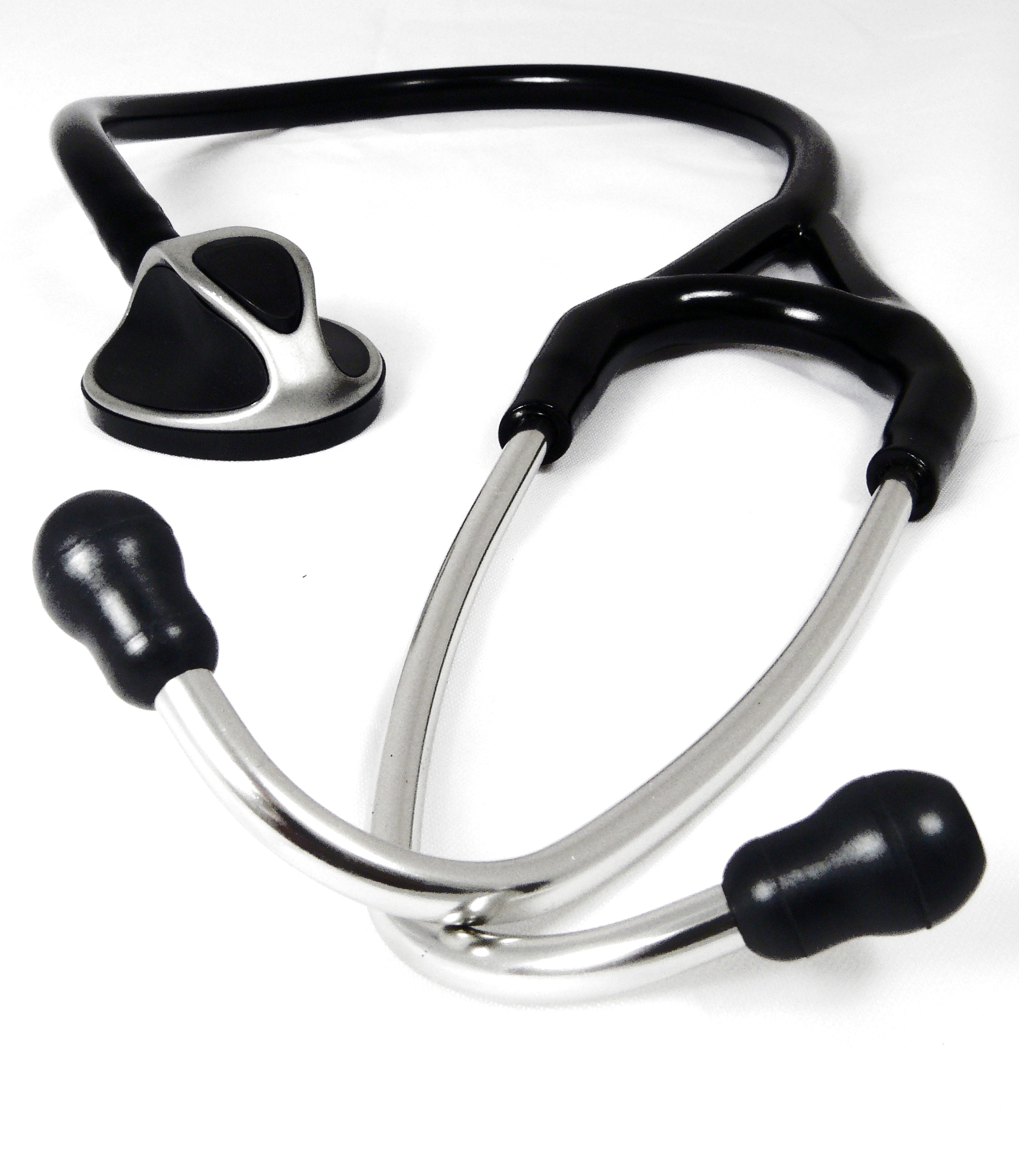 A specialist cardiology stethoscope.